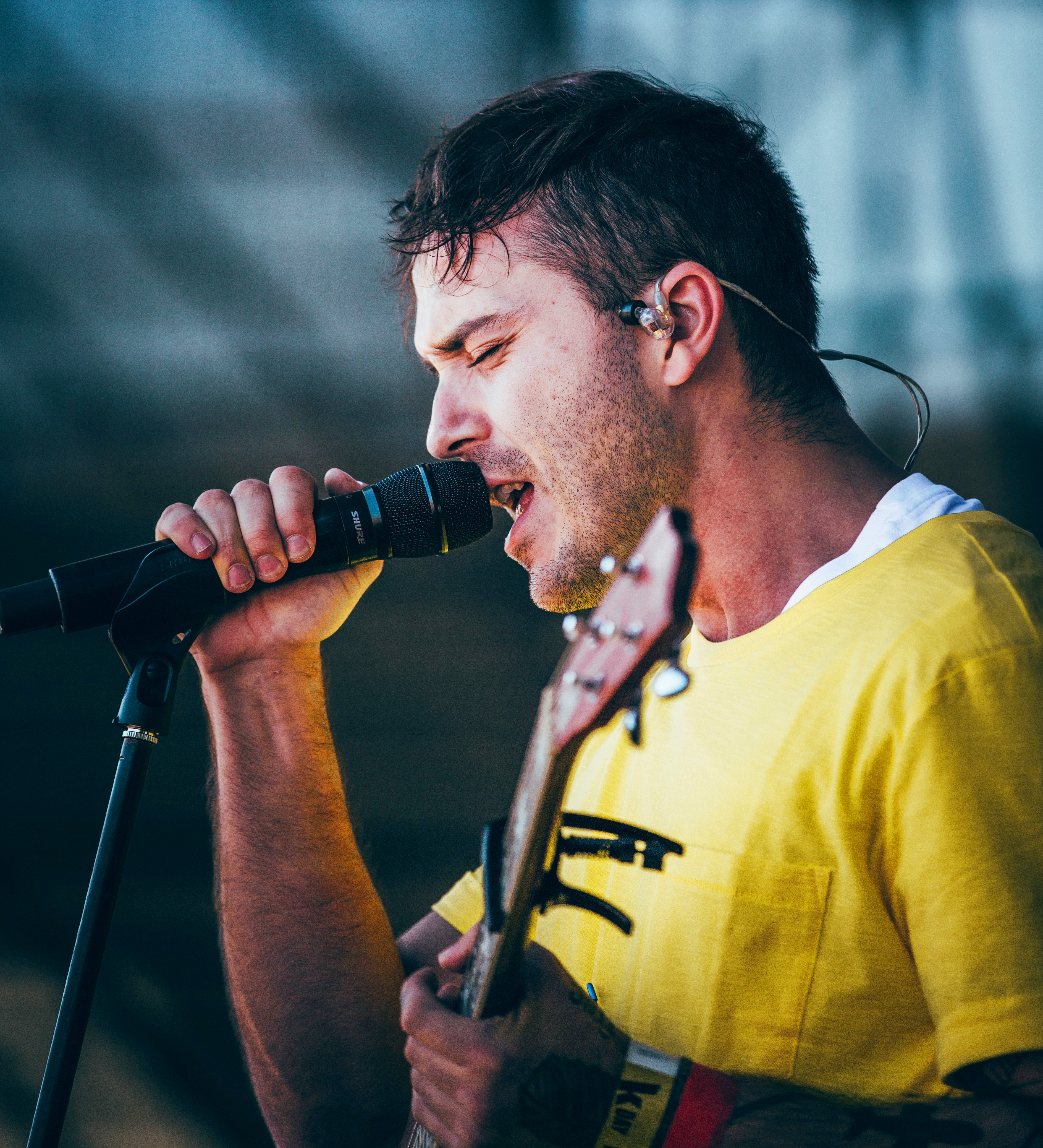 Matthew Mole Performing at Huawei KDay on 3 March 2018. His performance included: - Run - Holding On - Autumn - Free & Untorn - Light - Take Yours, I'll Take Mine